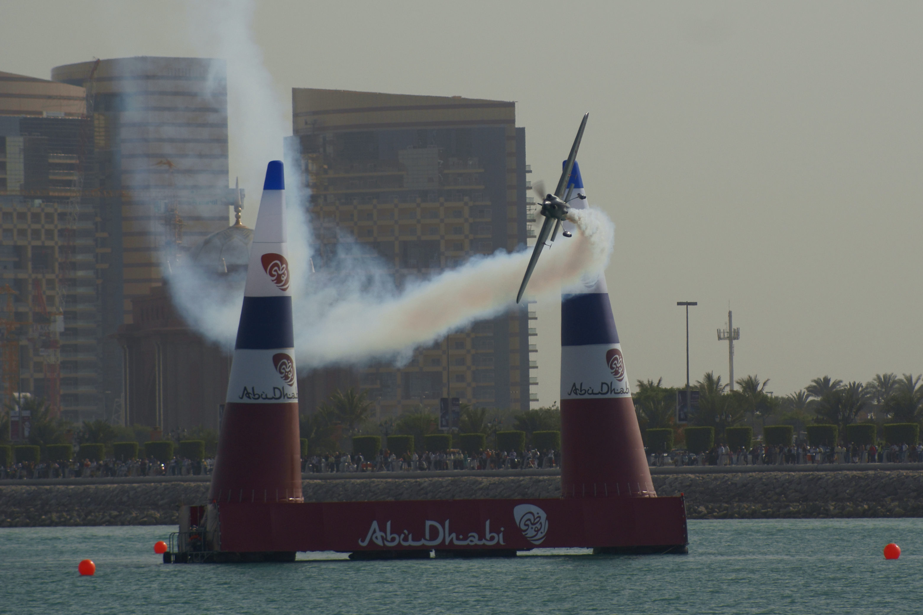 Red Bull Airrace 2010 in Abu Dhabi.